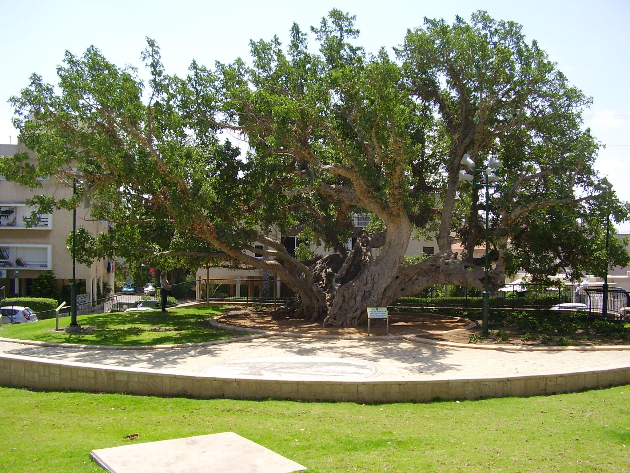 old sycamore tree in netanya, Plants of Israel